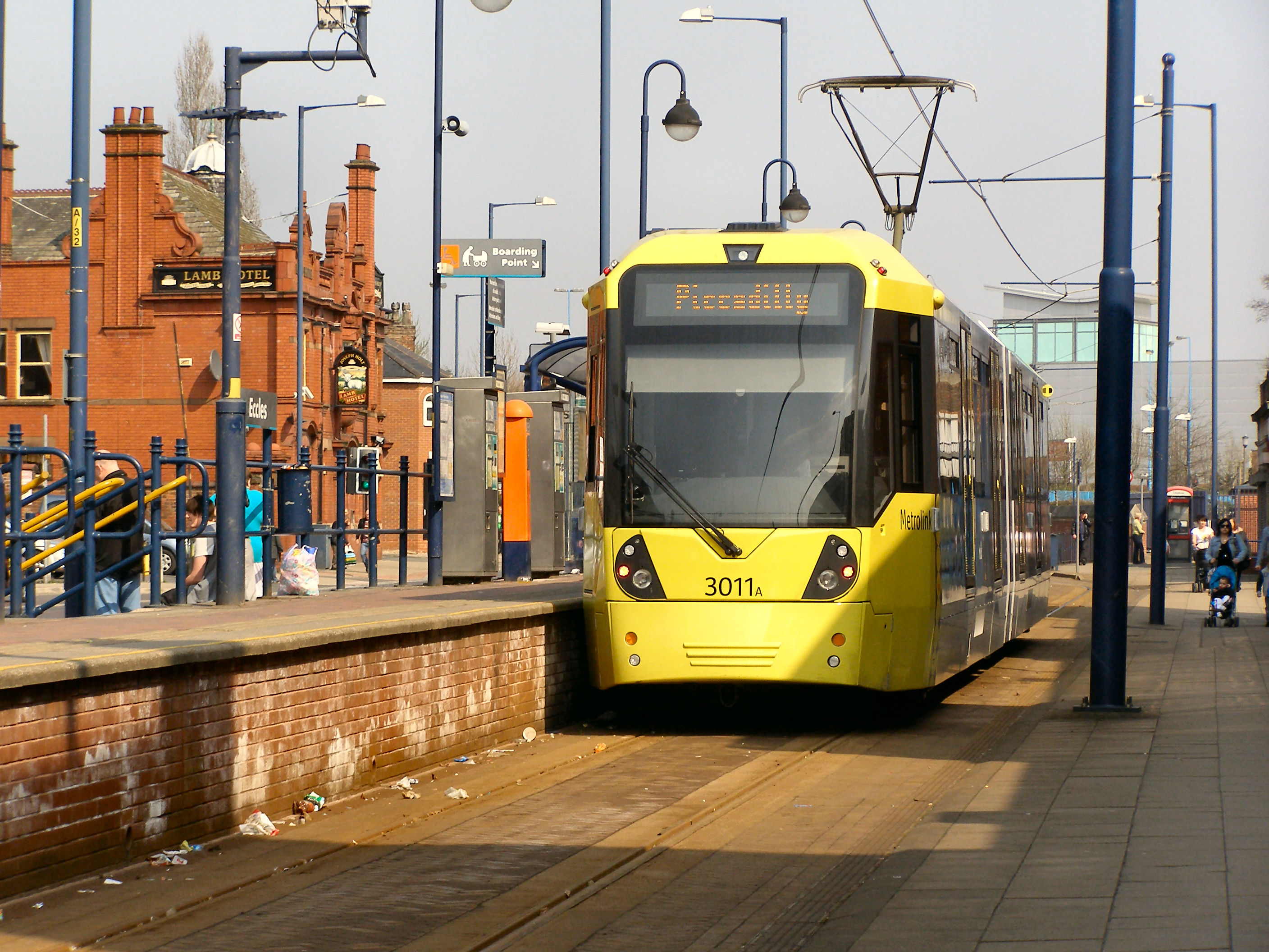 Eccles Interchange, a Metrolink station in Eccles, Greater Manchester, England.